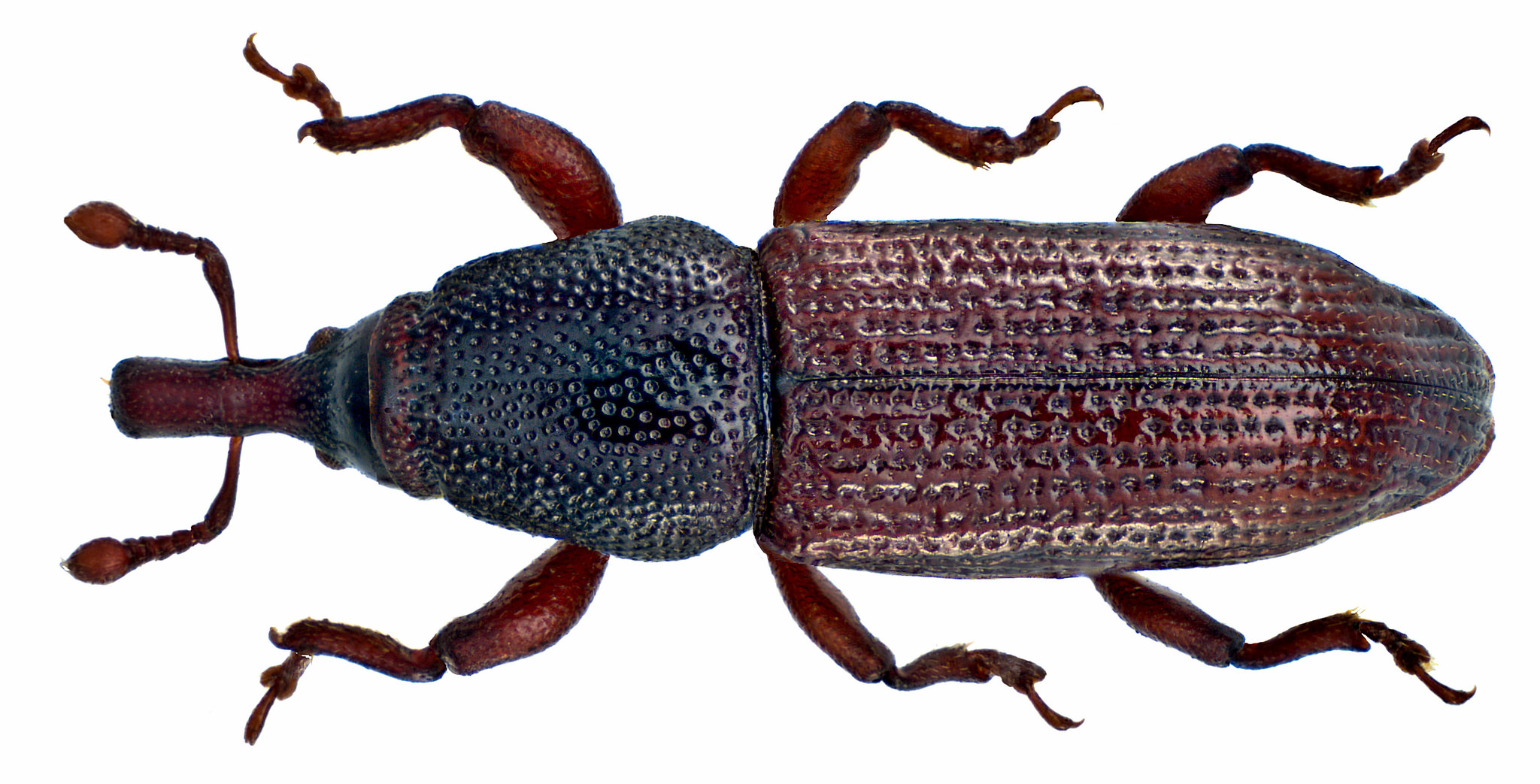 Pentarthrum huttoni (Wollaston, 1854) Family: Curculionidae Location: Ireland, Killarney Coll. Oxford University Museum of Natural History